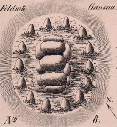 Megalithic tomb near Hanstedt II, Sprockhoff-No. 800